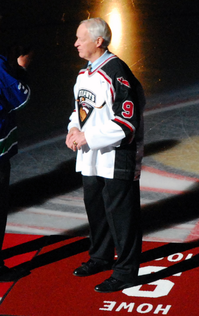 Gordie Howe, owner of the Vancouver Giants, at Gordie Howe Night at the Pacific Coliseum in March 2008.